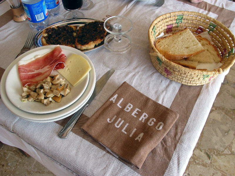 Italian antipasto.